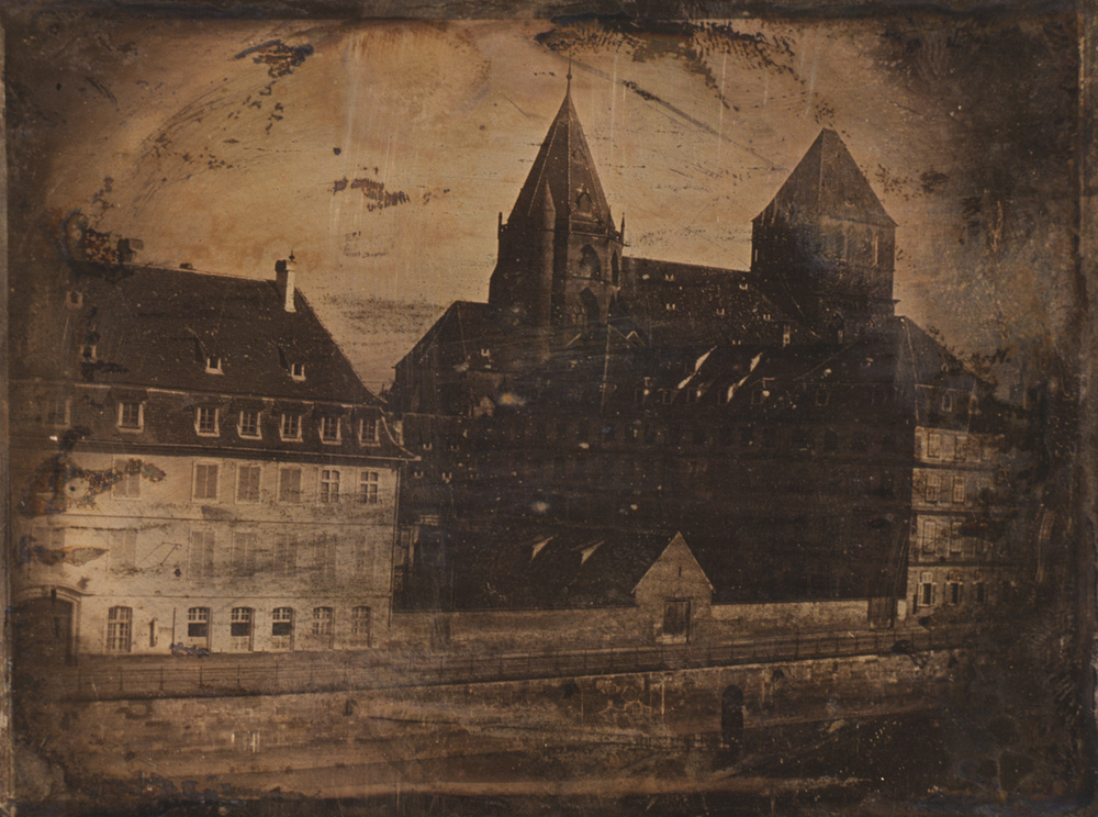 Saint Thomas Church, Strasbourg